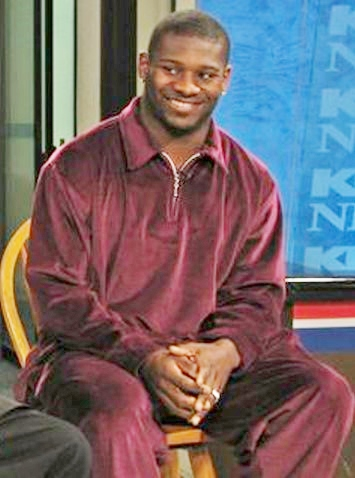 Photo of football great LaDainian Tomlinson